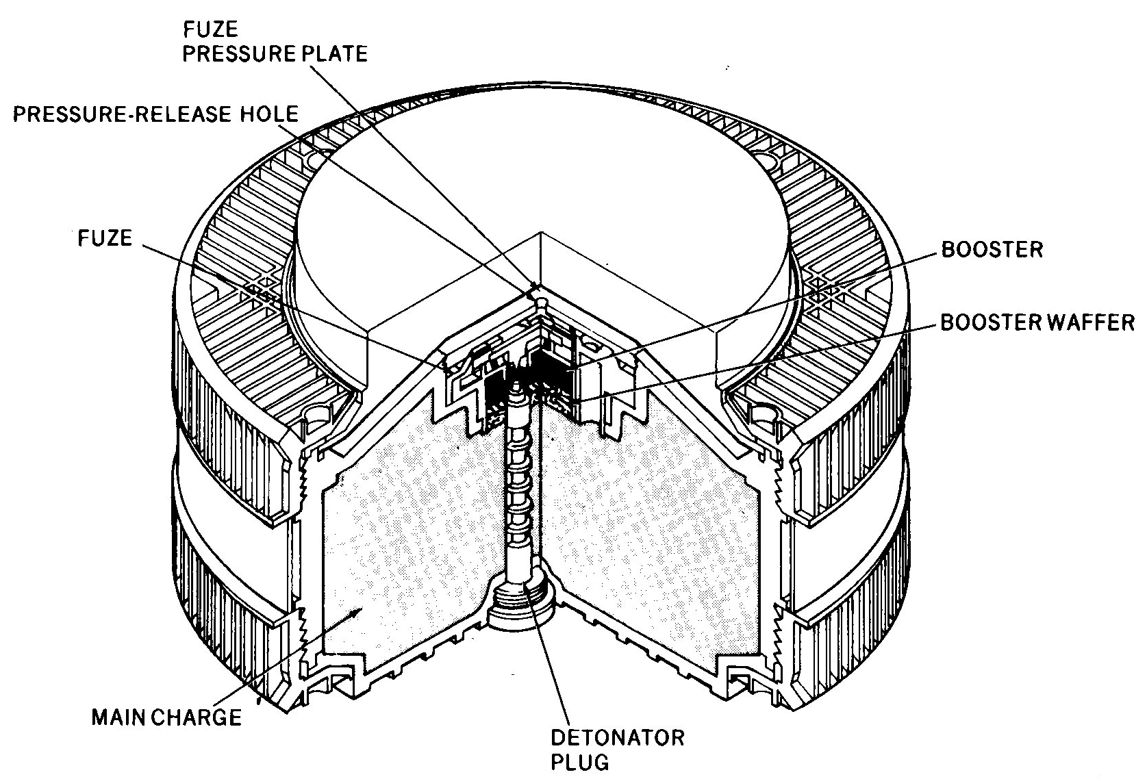 An Italian TC/2.4 anti-tank landmine - shown as a cutaway.